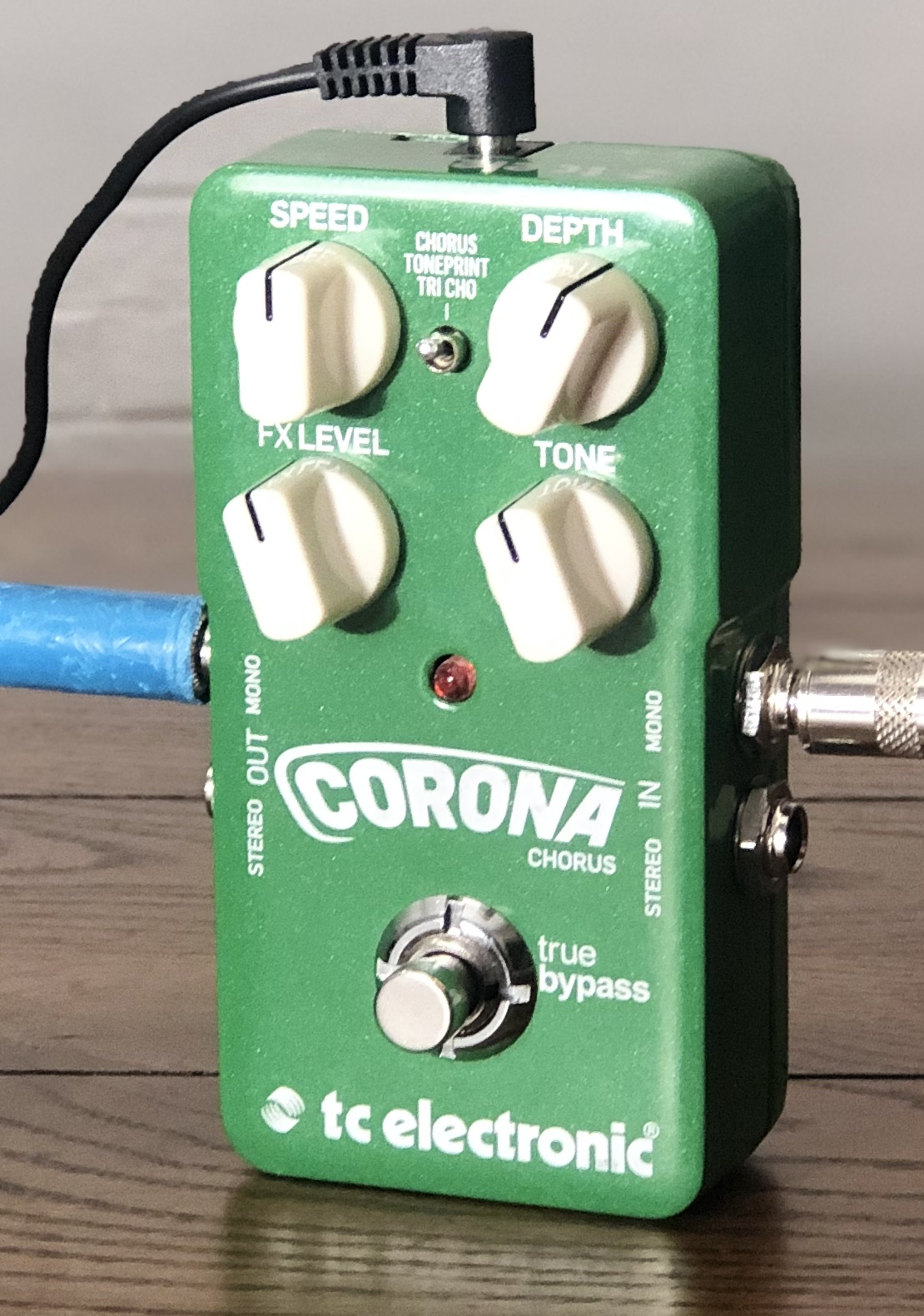 Shots of the TC Electronic Corona chorus pedal with an iPhone 8 in portrait mode. This pedal has 4 controls : - Speed - Depth - FX Level (mix) - Tone It has 3 modes : chorus, toneprint (custom presets) and trichorus. It has stereo inputs and outputs.